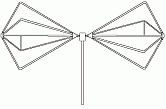 biconiocal antenna